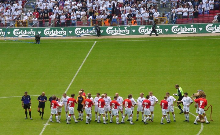 Danish football club Vejle Boldklub at Parken stadium in Copenhagen playing against FC København.